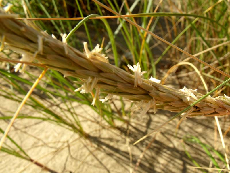 Flowers of Ammophila arenaria. Photo taken on Castel Fusano coastal dune system (Rome province. Latium, central Italy). Photo by Massimilaino Marcelli.